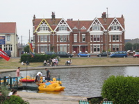 The Oyster Pond, Littlehampton. Peter Murray, own picture